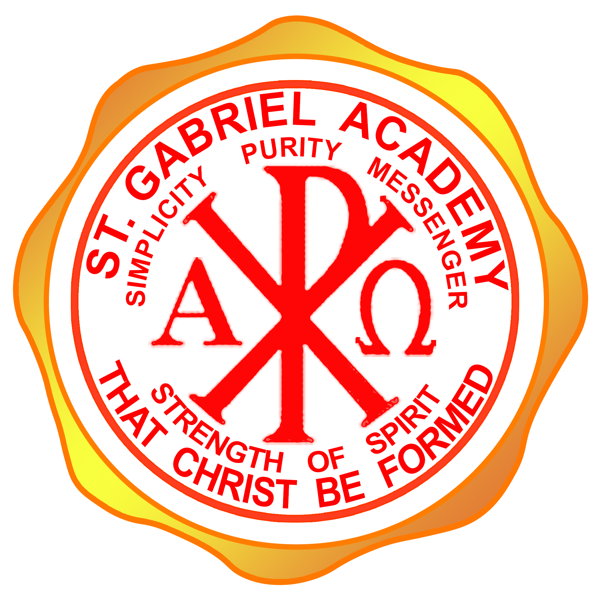 Saint Gabriel Academy (SGA) Official Logo